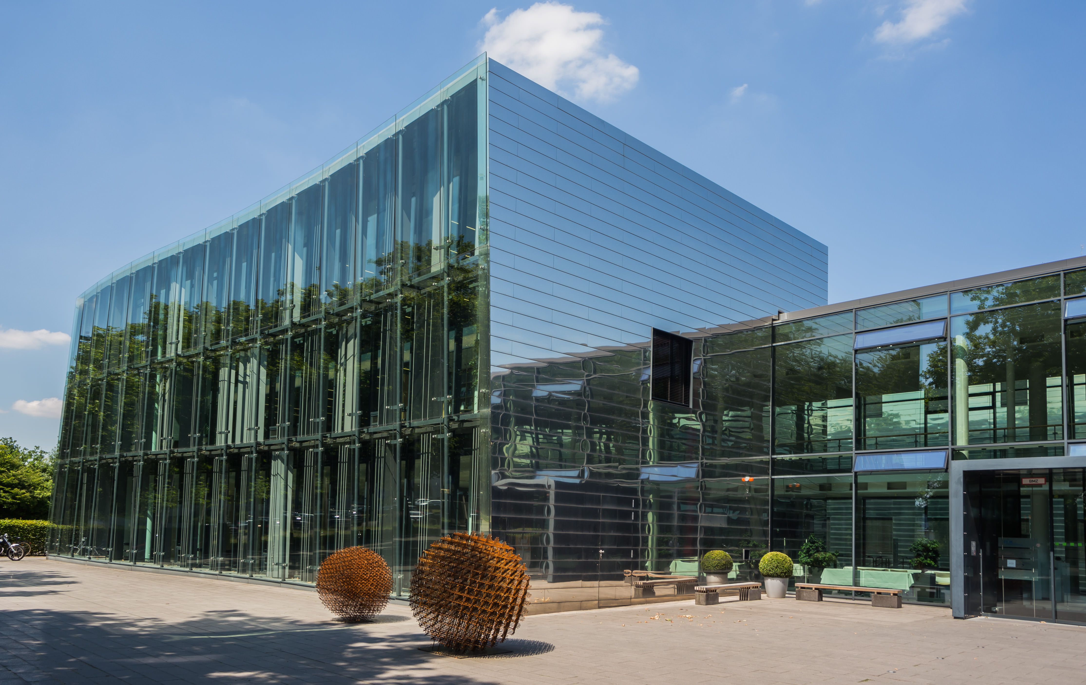 Research center caesar, Ludwig-Erhard-Allee 2, Bonn-Hochkreuz: viewing direction north